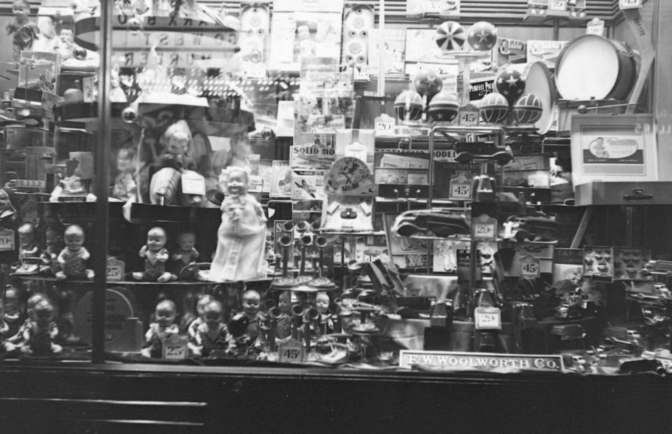 We see the Christmas display of the window of a branch of a store "FW Woolworth Co Ltd". It exposes dolls and toys.